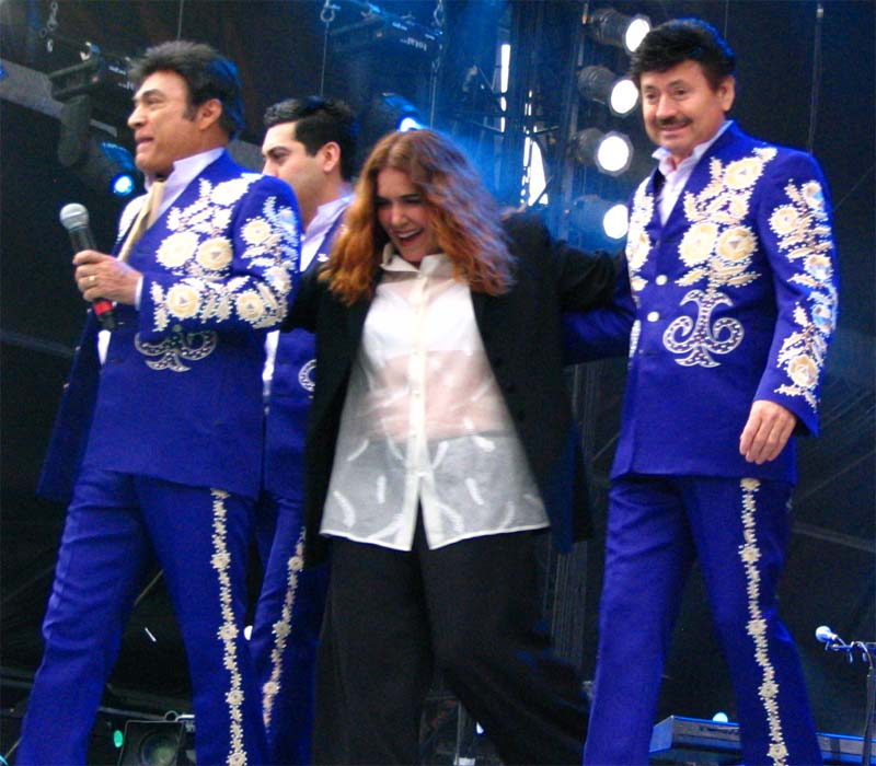 "Tania Libertad y Los Tigres del Norte" Attribution for this Photo must be provided with a Photo Credit to yr_equipo_mx_noticia s Derivative work created by Hugh Pickens